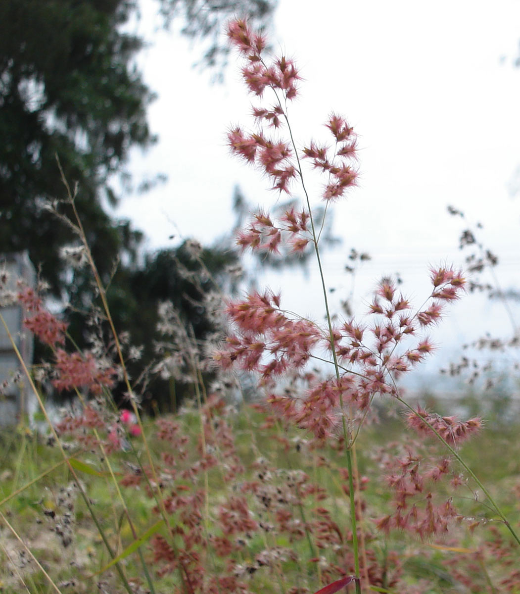 Melinis repens OR Rhynchelytrum repens; (salapona) on a Tongan cemetary